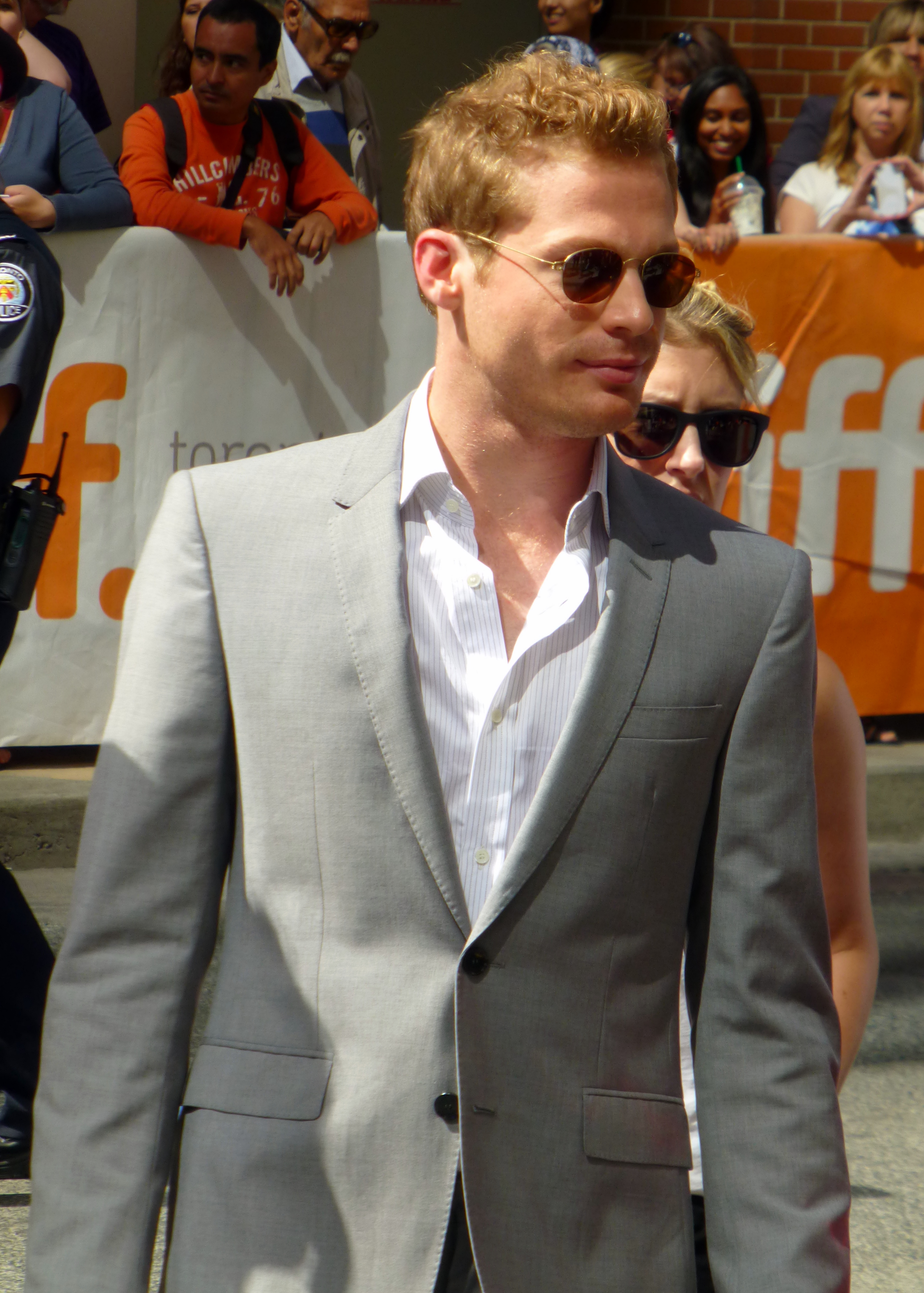 Sam Reid at the premiere of Belle, Toronto Film Festival 2013